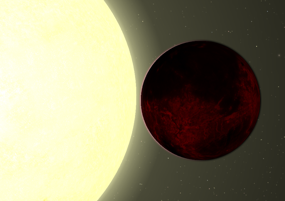 Kepler-78 in Celestia